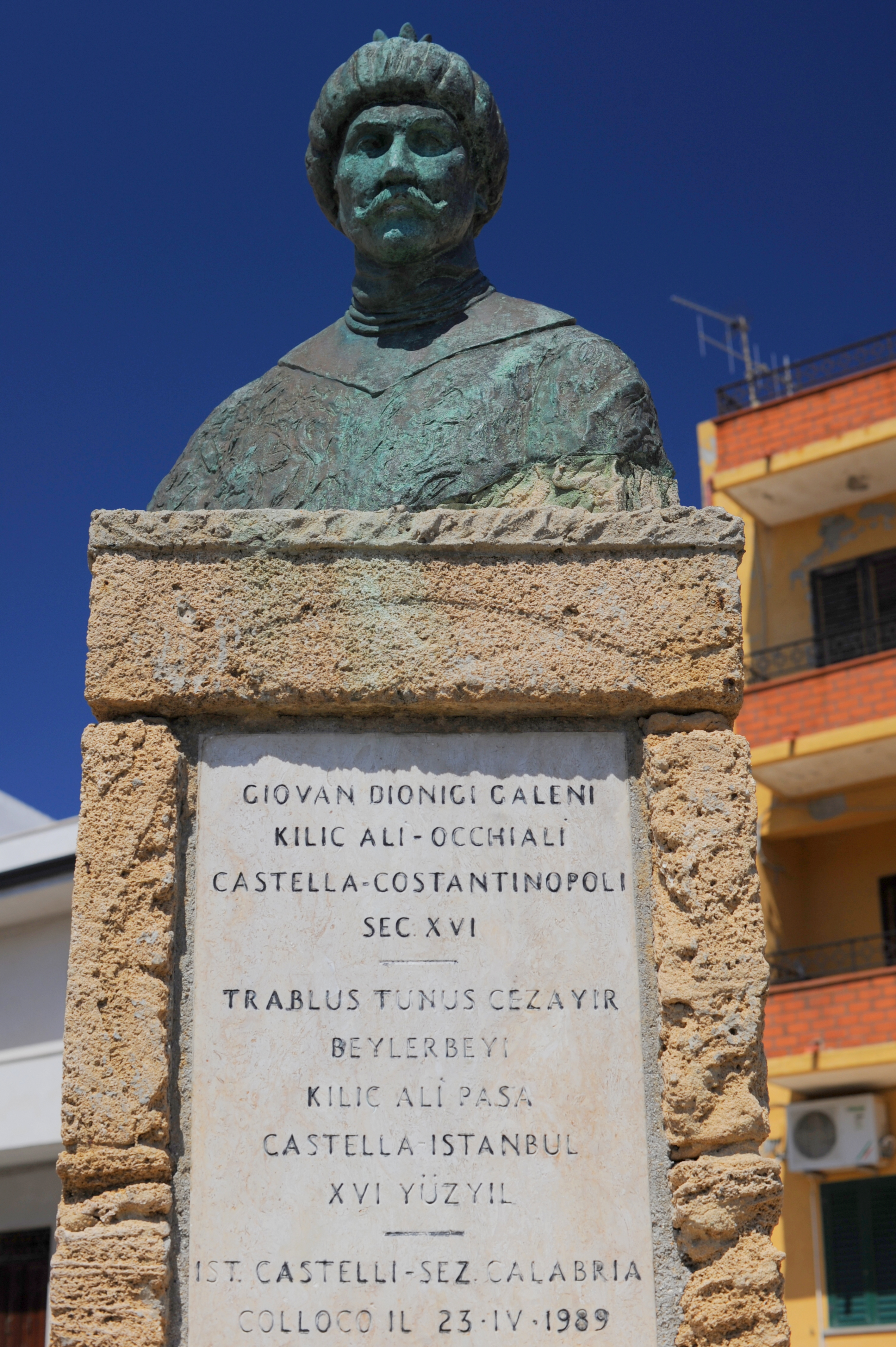 La Castella (Kilic Ali Pasa statue), Region of Crotone, Calabria, Italy.